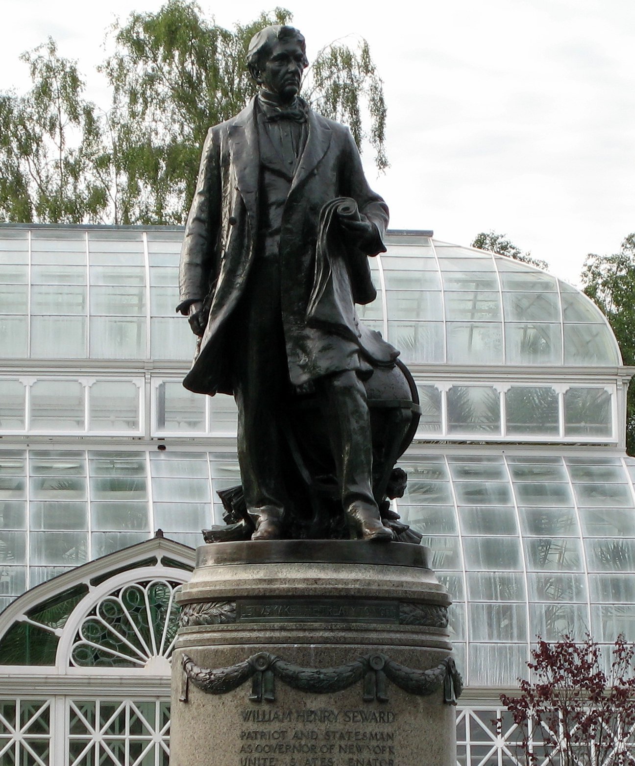 Statue of William H. Seward in front of the Volunteer Park Conservatory in Volunteer Park, Seattle, Washington. The statue was created by Richard E. Brooks and unveiled at the Alaska–Yukon–Pacific Exposition in 1909 and later moved to this location in the park.